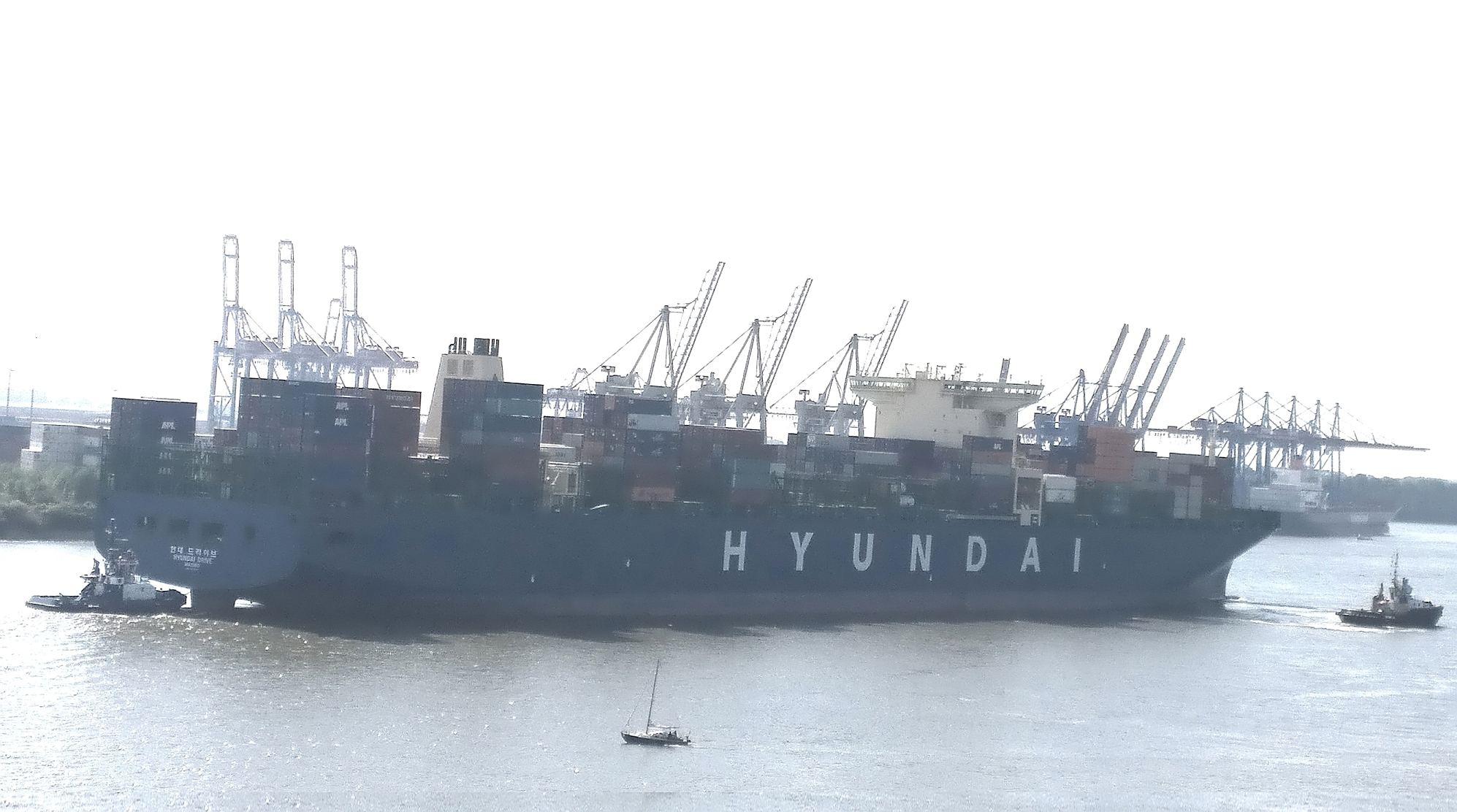 Container ship Hyundai Drive in the port of Hamburg in August 2015